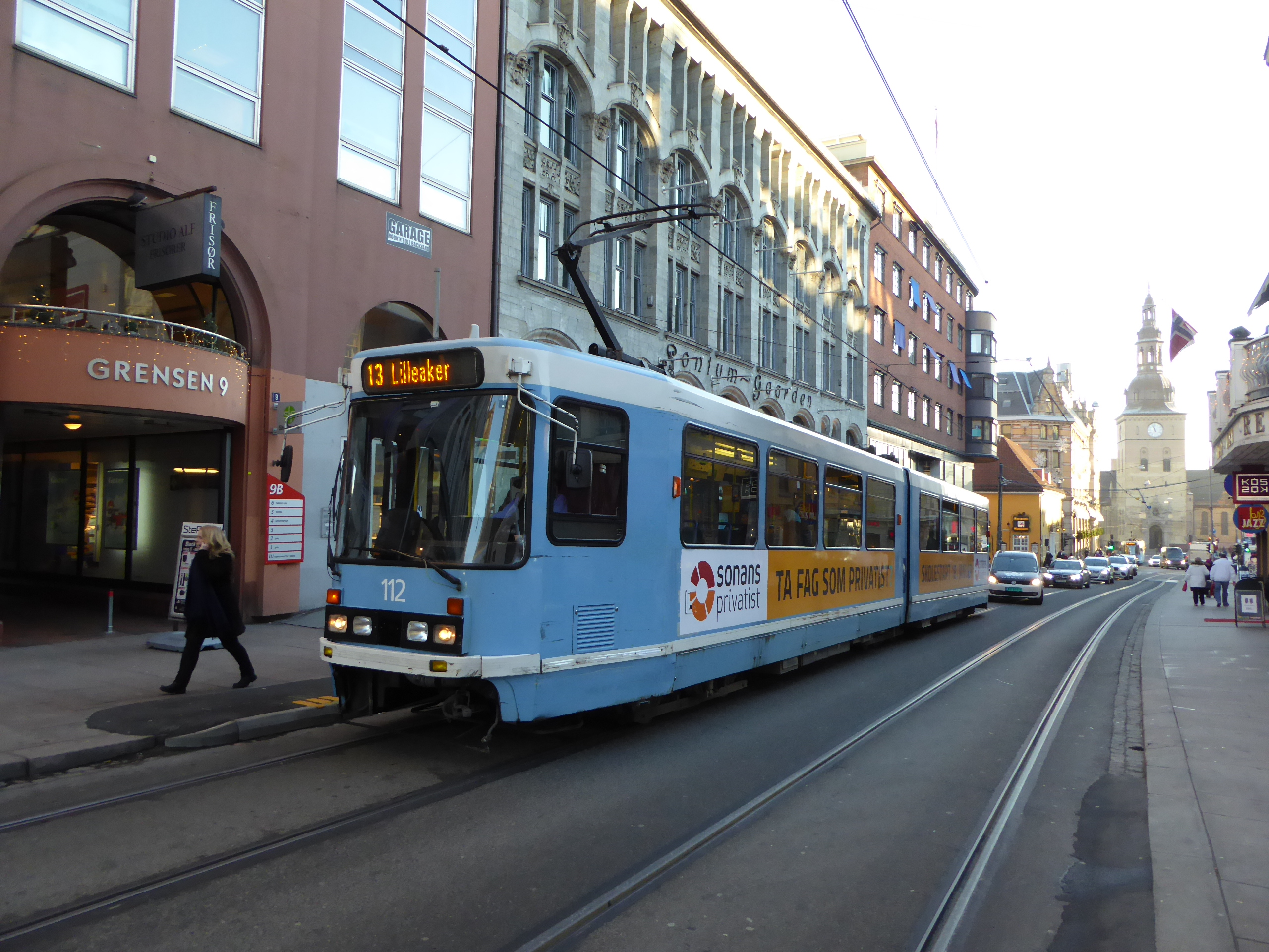 Oslo tram line 13 at temporary tram stop on Grensen in Oslo. In the background at the right Oslo Domkirke can be seen.